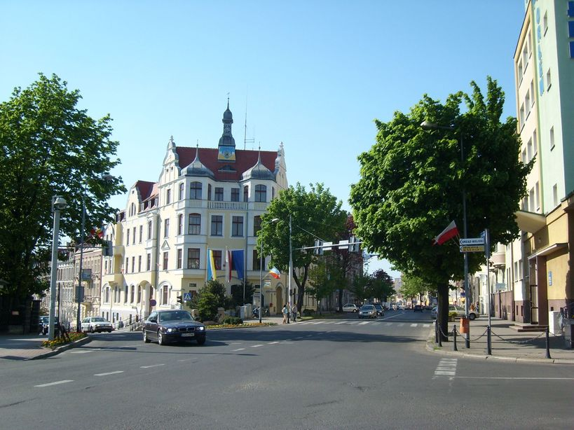 Town hall of Zgorzelec - Warszawska Street (May 2008)